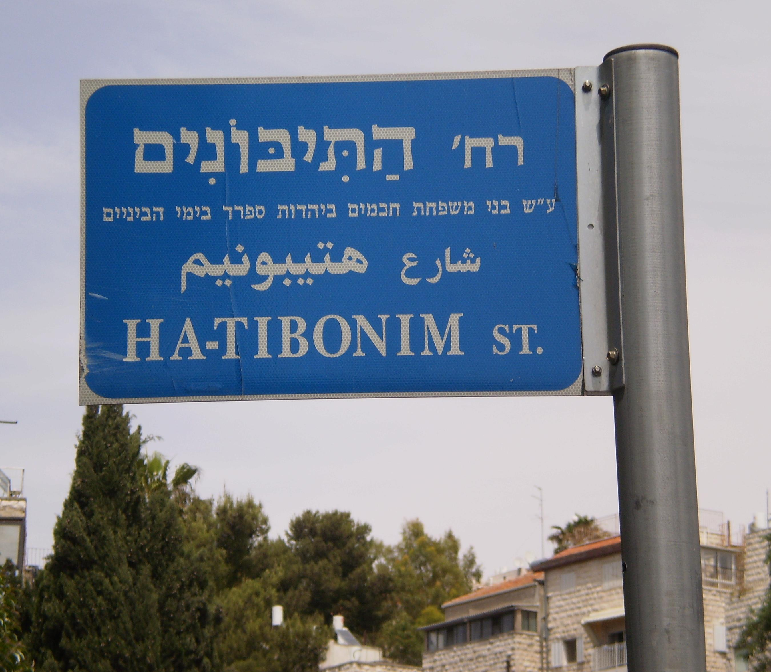 Hatibonim street, Jerusalem